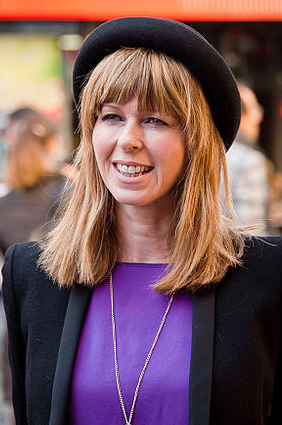 Kate Garraway at a gala screening of Turbo in London, November 2013